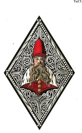 Coat of Arms of company of Nowgorodfahrer, Lübeck